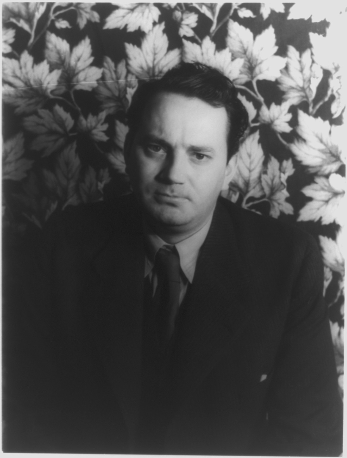 Thomas Wolfe, 1937